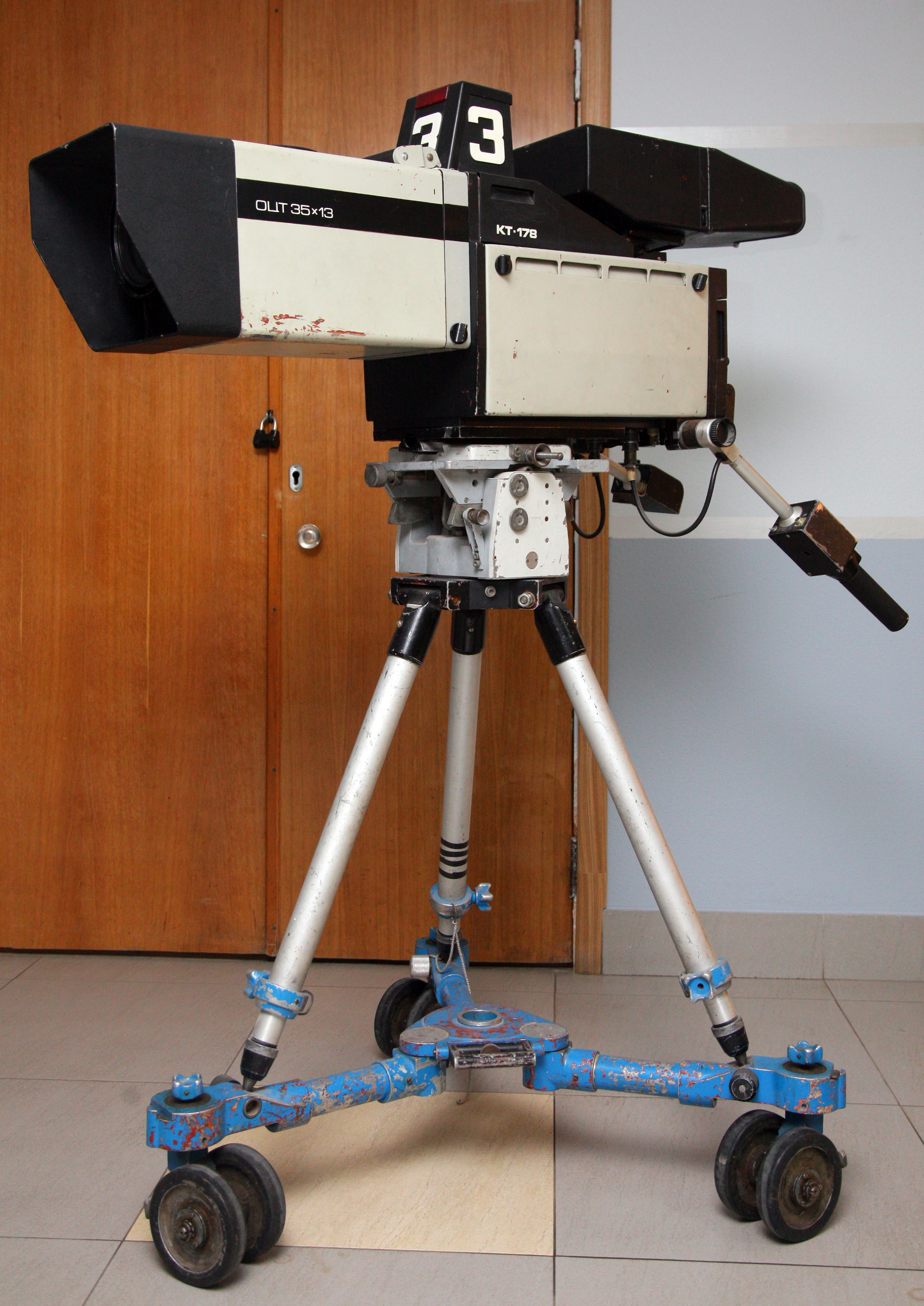 Soviet TV broadcasting 3-tube studio camera KT-178 with 35X zoom lens "OCT 35x13".